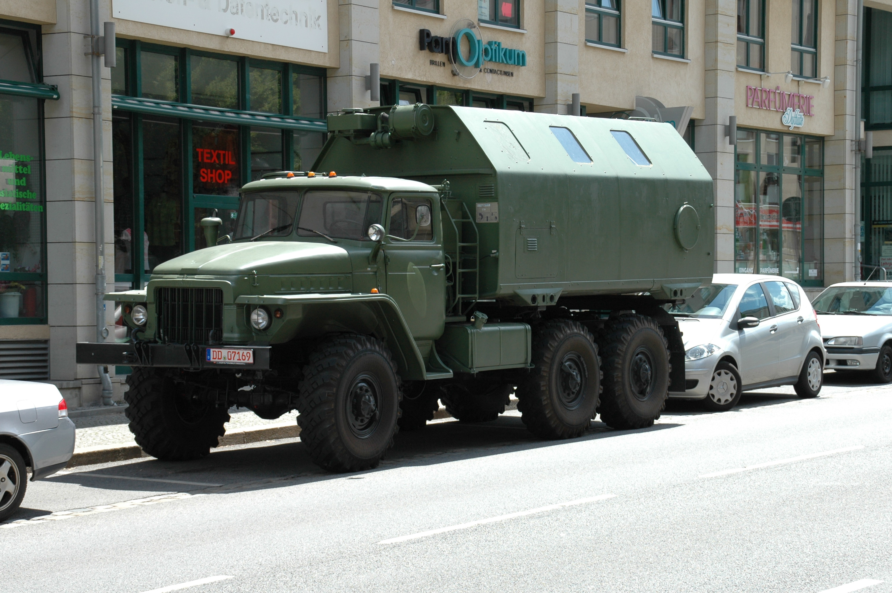 Ural 375D in Dresden.